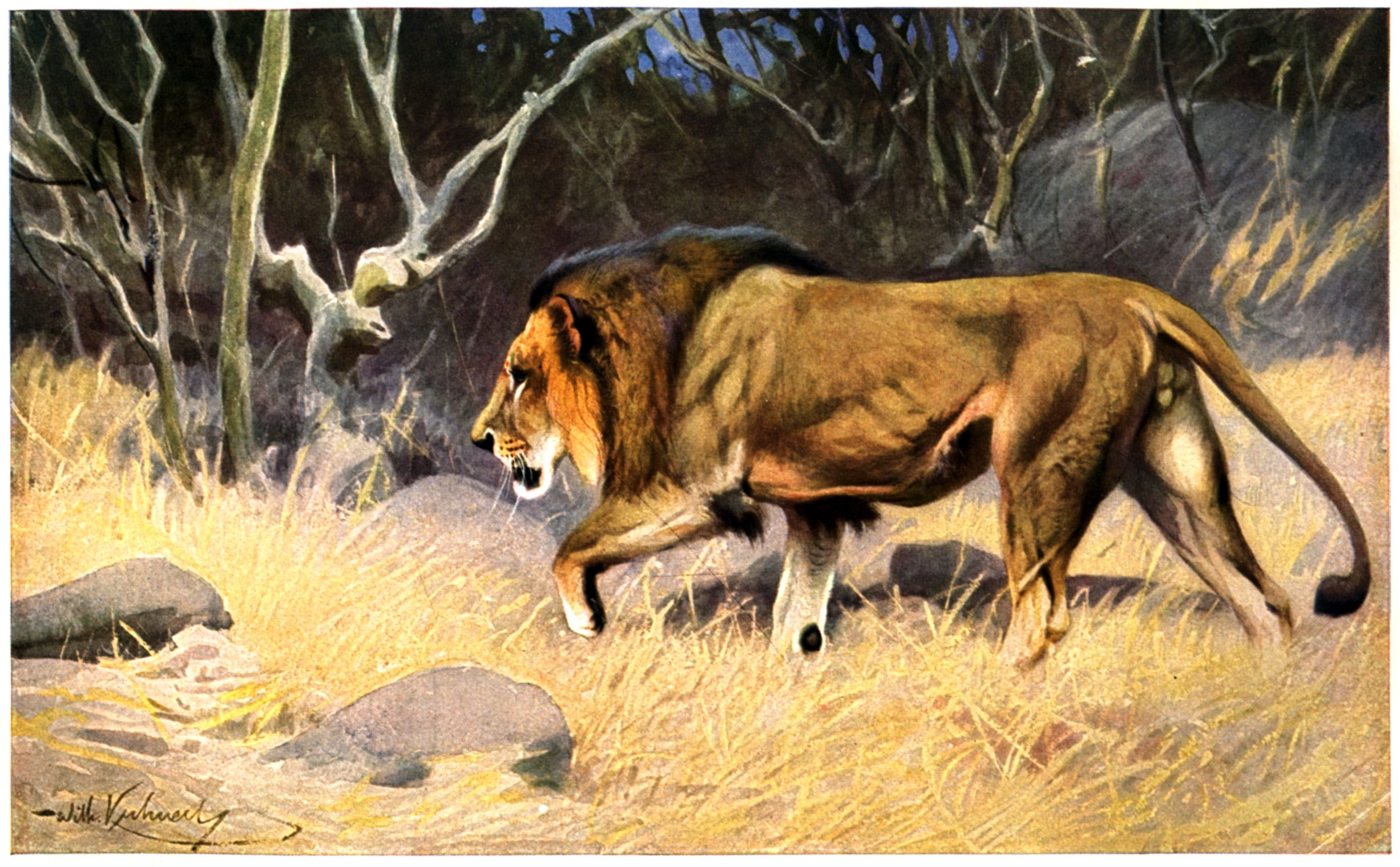 Original caption: "Massai-Löwe." Translation (partly): "Lion (Panthera leo)." Size: 8.2 x 5.1 in² (20.8 x 12.9 cm²)